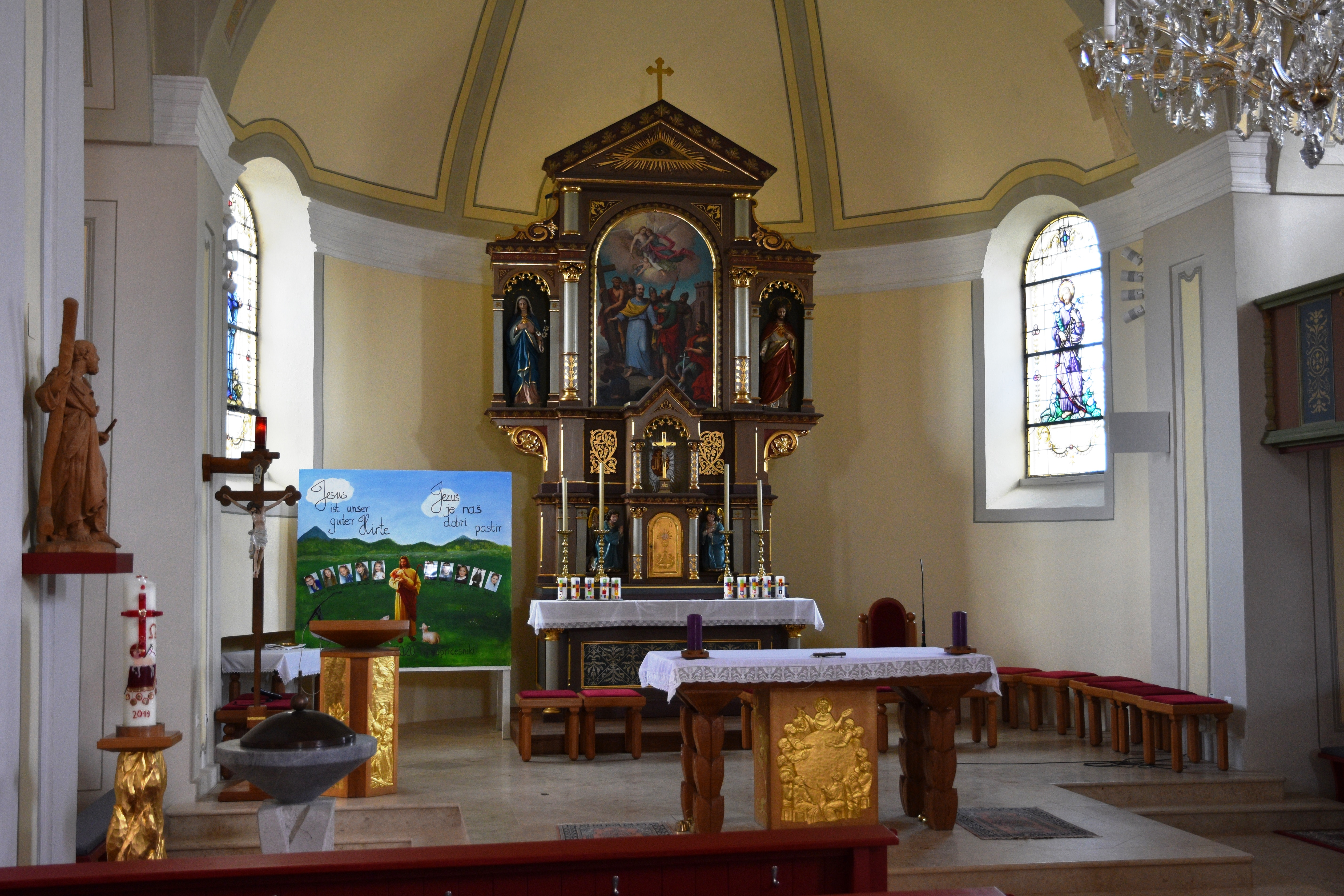 Church Kath. Pfarrkirche hll. Petrus und Paulus (Stinatz) Interior